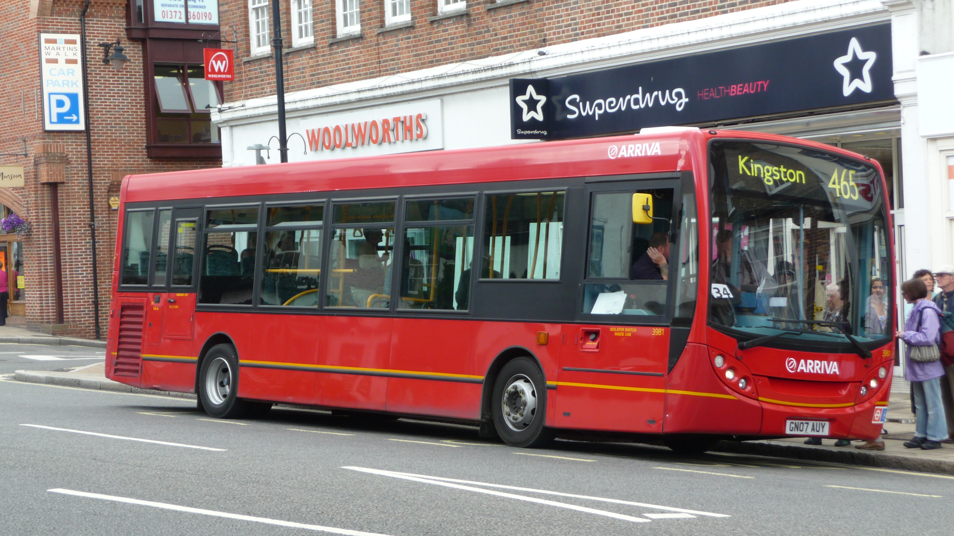 Arriva Guildford & West Surrey 3981 (GN07 AUY), an Alexander Dennis Enviro200 Dart, in Dorking High Street, Dorking, Surrey, on Transport for London contracted route 465. Route 465 was run from Arriva's Horsham depot, at Warnham railway station. Arriva sold their Horsham operations to Metrobus in late 2009, with Metrobus starting operations from their own depot at Crawley on 3 October 2009. This bus moved to Metrobus, and saw continued use on route 465, with new fleet number 225.